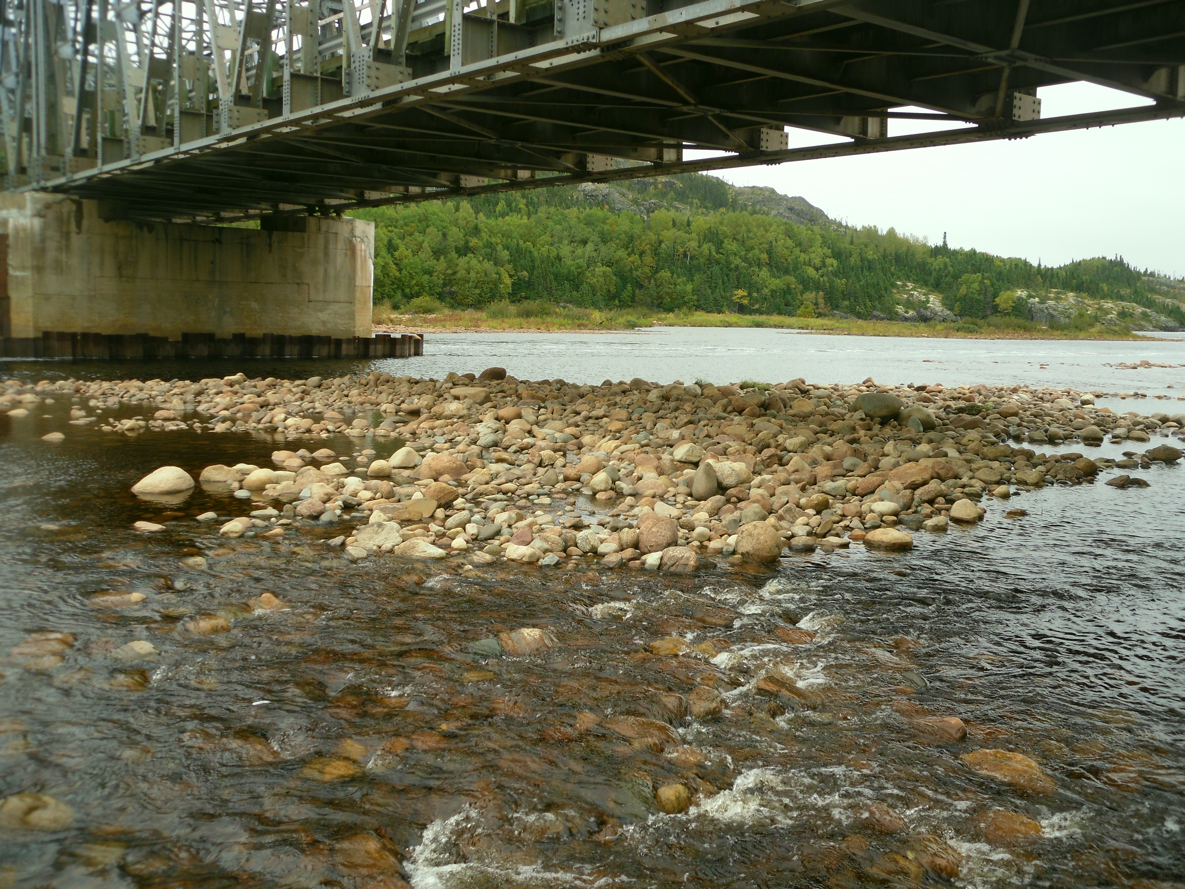 Bridge going into Sop's Arm